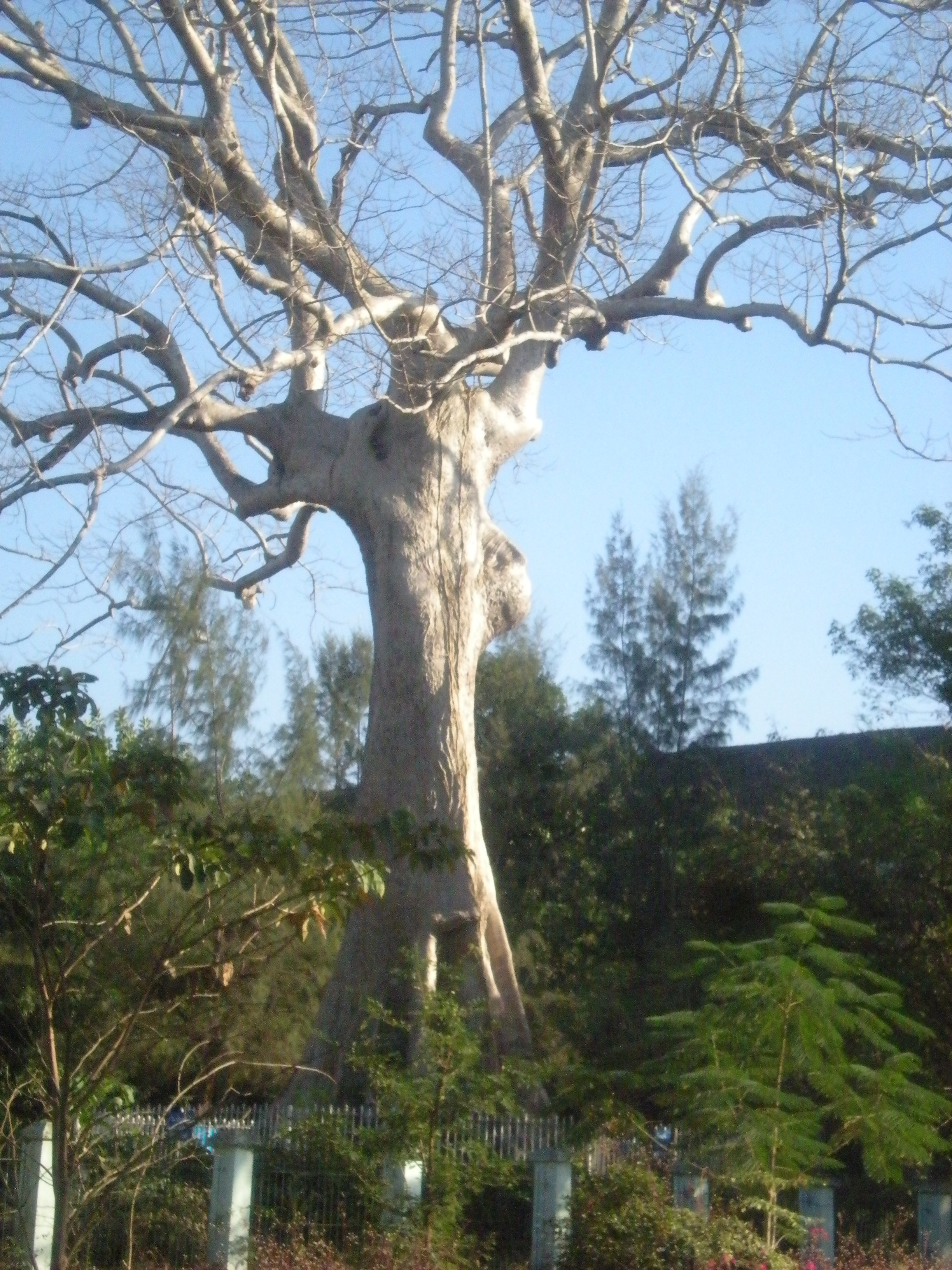 Tetrameles nudiflora, which is as old as museums in Europe is a rare species of plant in Burma မြန်မာဘာသာ: သစ္ပုုပ္ပင္ ျကီး